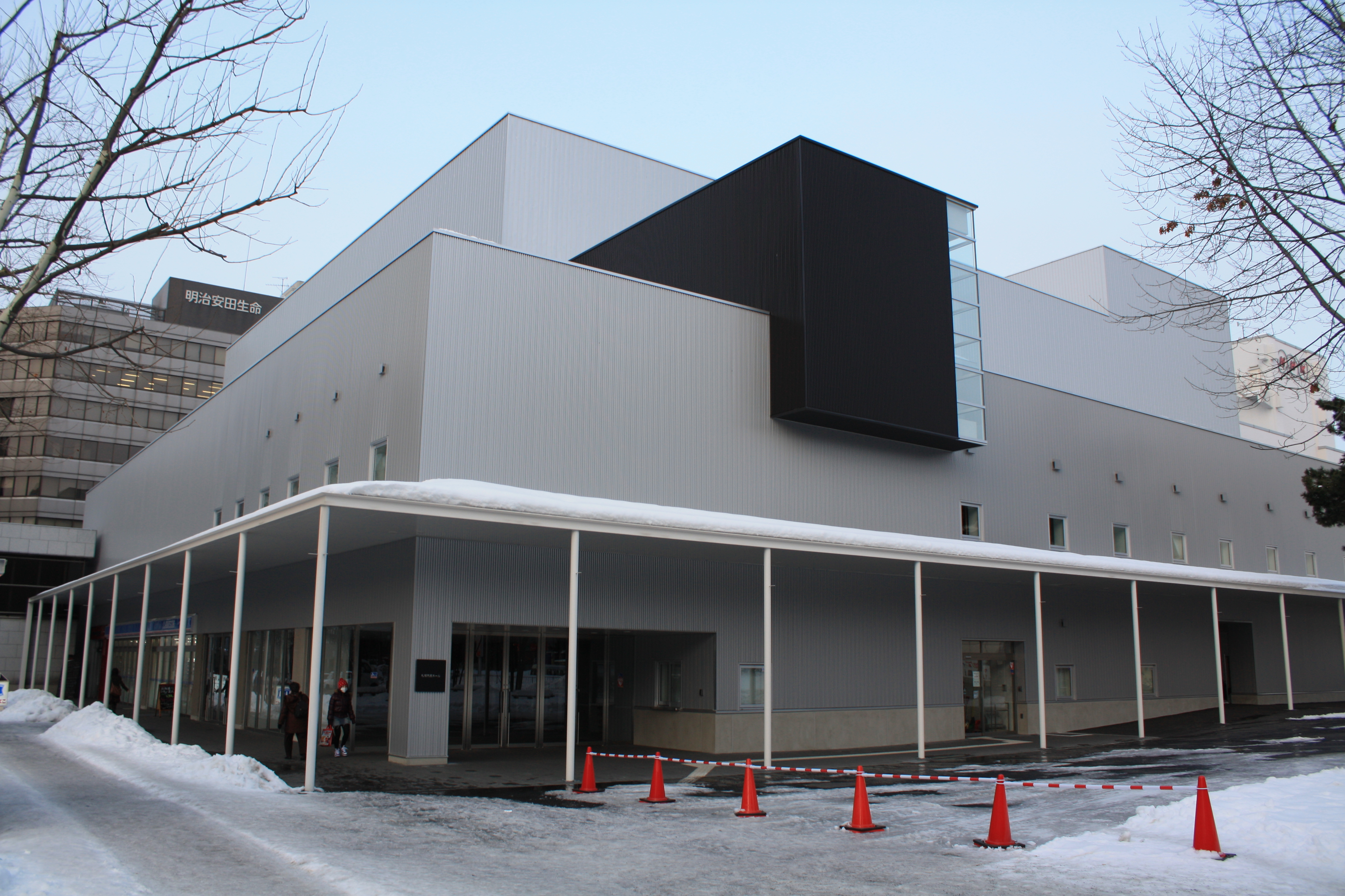 Sapporo Citizens Hall (Sapporo, Hokkaido, Japan)